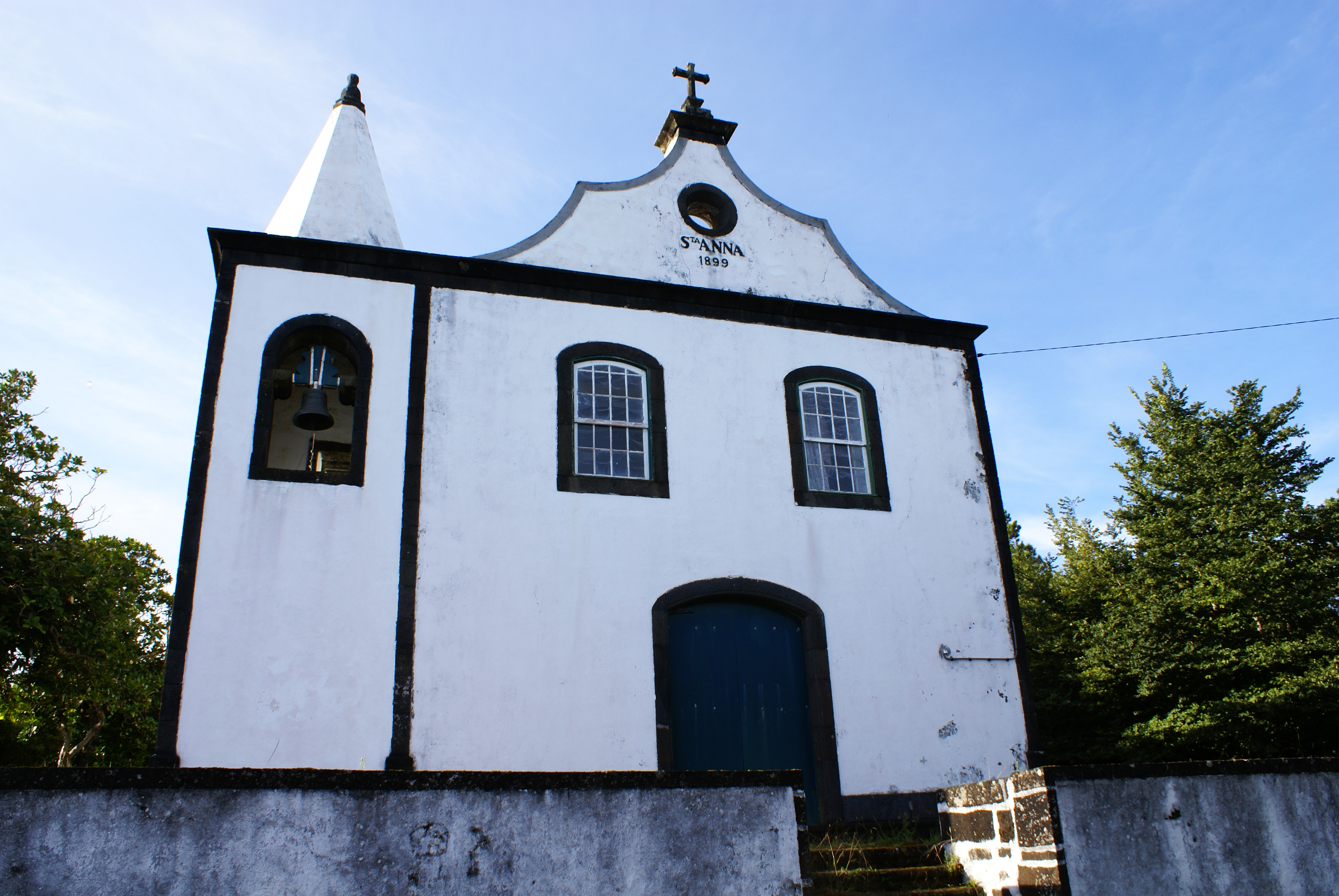 Church of Santana, in the parish of Santo António, municipality of São Roque do Pico, Azores (Portugal)